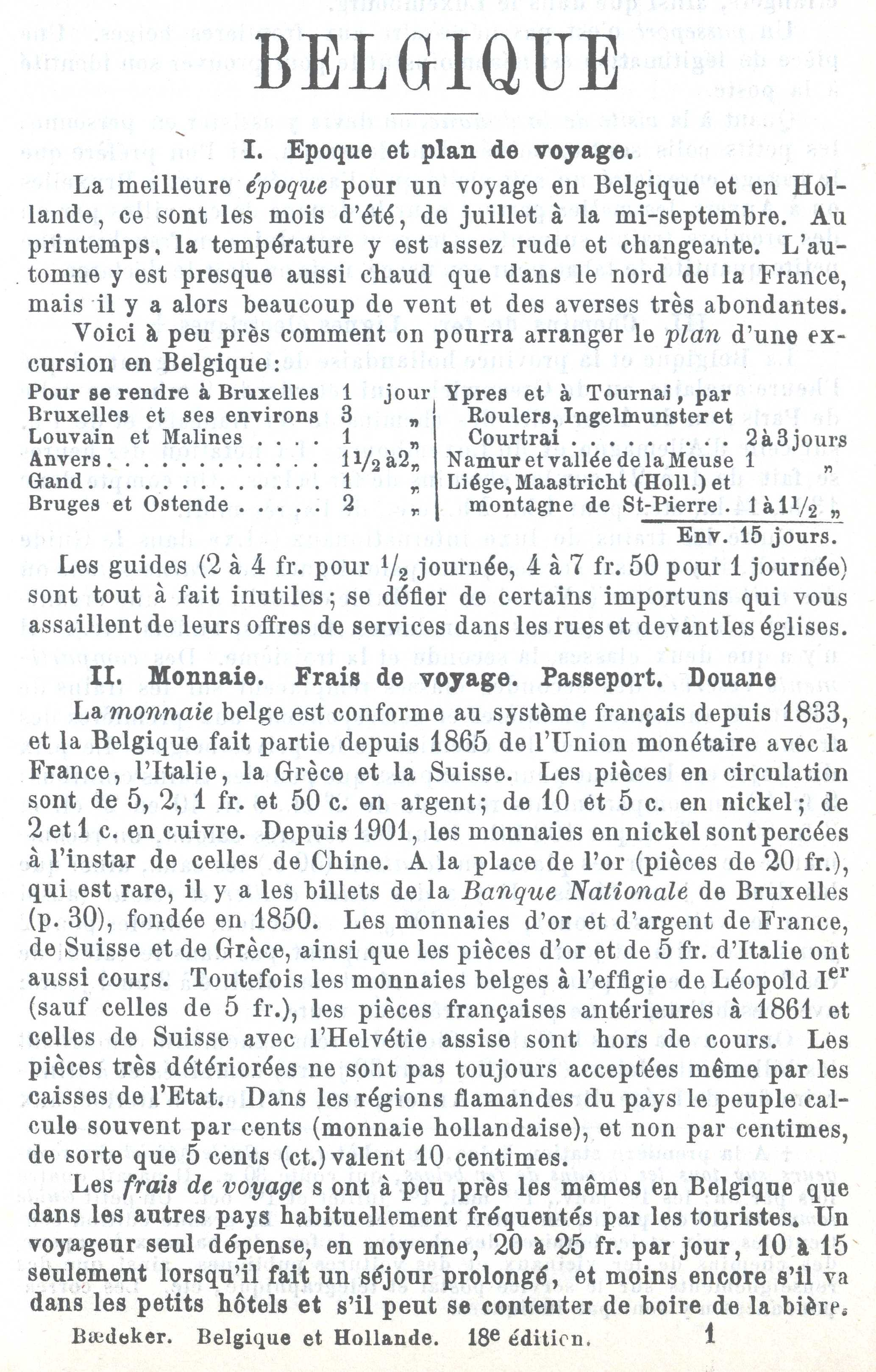 Introduction to Belgium in the 1905 travelguide for the Benelux. Page 1 (money and cost